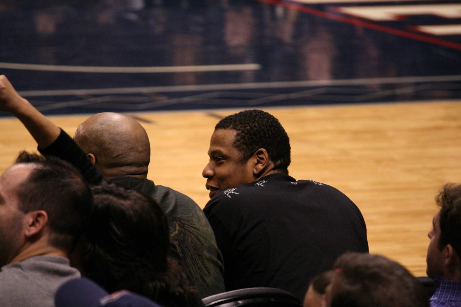 Rapper Jay-Z at a New Jersey Nets game.